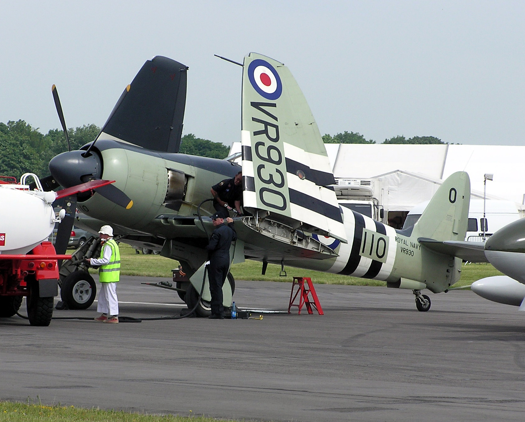 Hawker Sea Fury Mk.II (VR930), previously of the UK Fleet Air Arm, with wings folded, at Kemble Airfield, Gloucestershire, England. Owned by the Royal Navy Historic Flight. Photographed by Adrian Pingstone in June 2005 and released to the public domain.